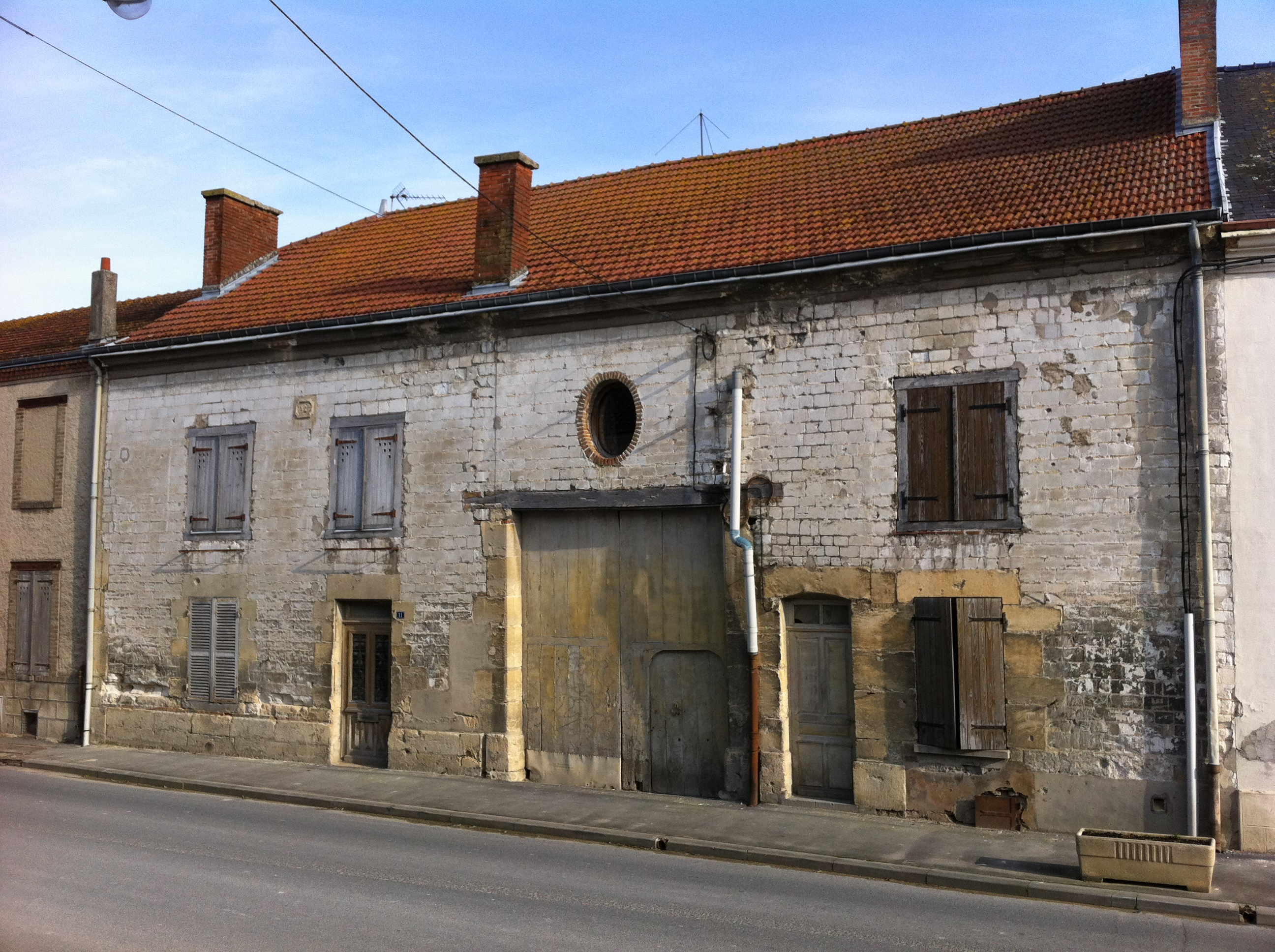 Former Royal mail relay of Isles-sur-Suippe, founded in the mid-17th century.